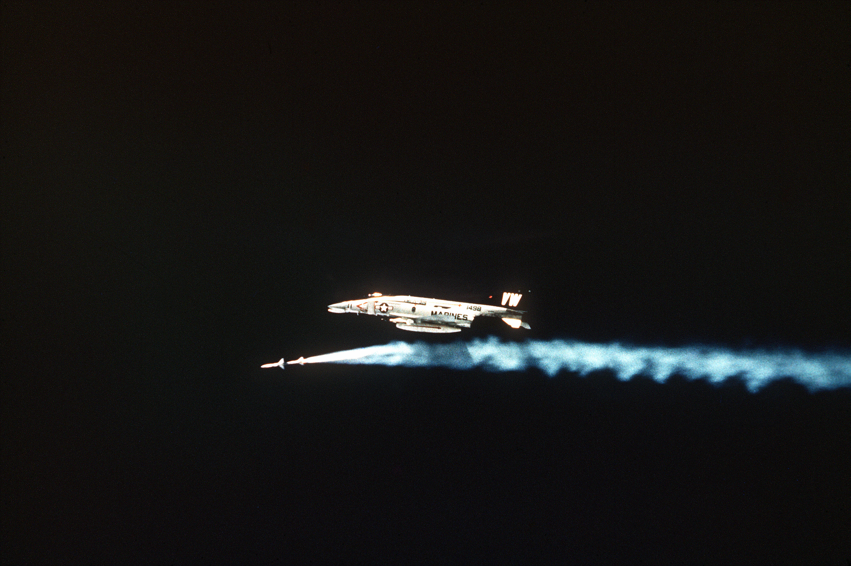 A U.S. Marine Corps McDonnell Douglas F-4N Phantom II aircraft (BuNo 151498) from Marine fighter-bomber squadron VMFA-314 Black Knights firing one of its AIM-7 Sparrow air-to-missiles near Marine Corps Air Station New River, North Carolina (USA), probably in the 1970s.